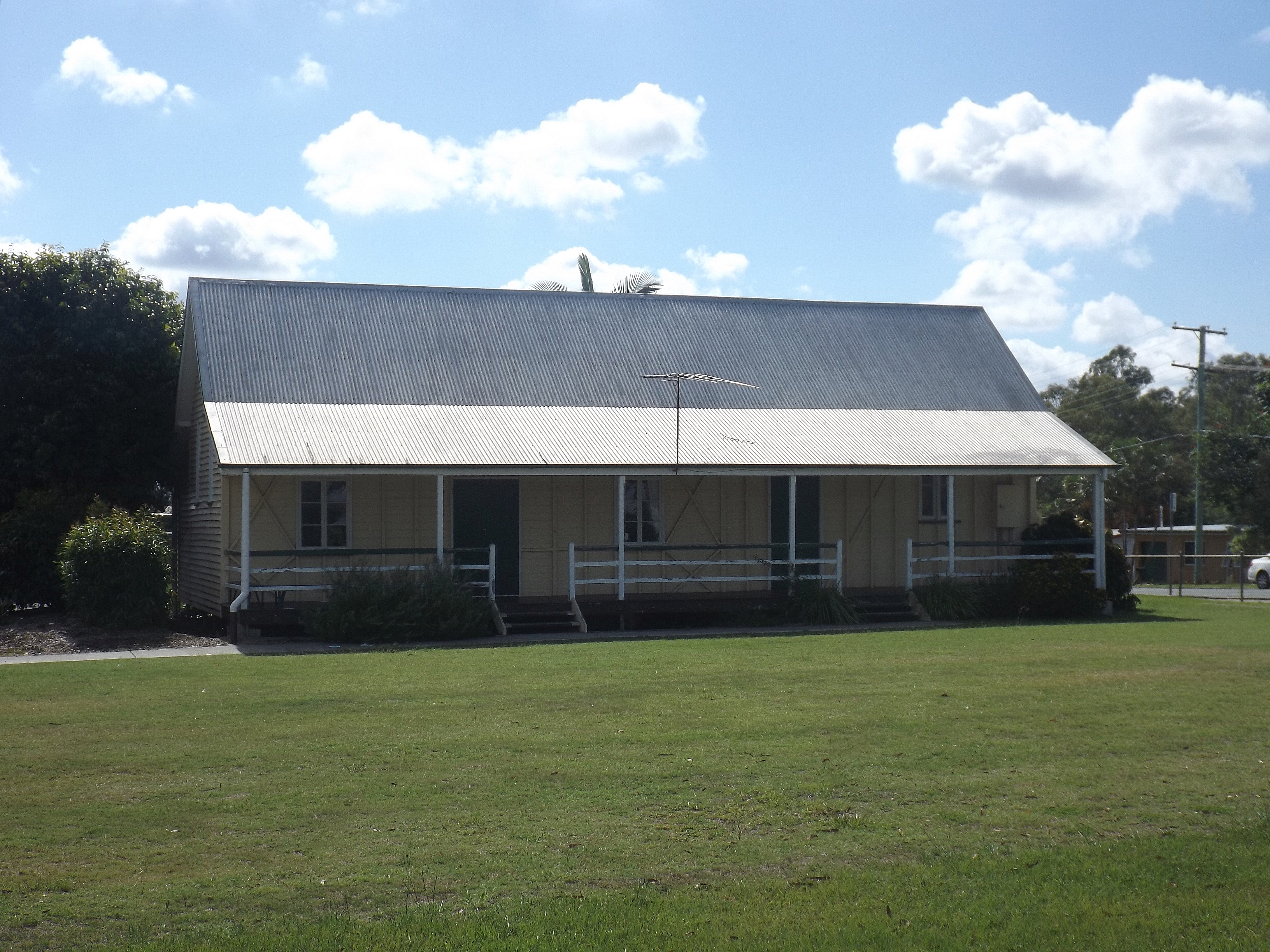 Photo of Waterford State School at Waterford, City of Logan, Queensland, Australia.